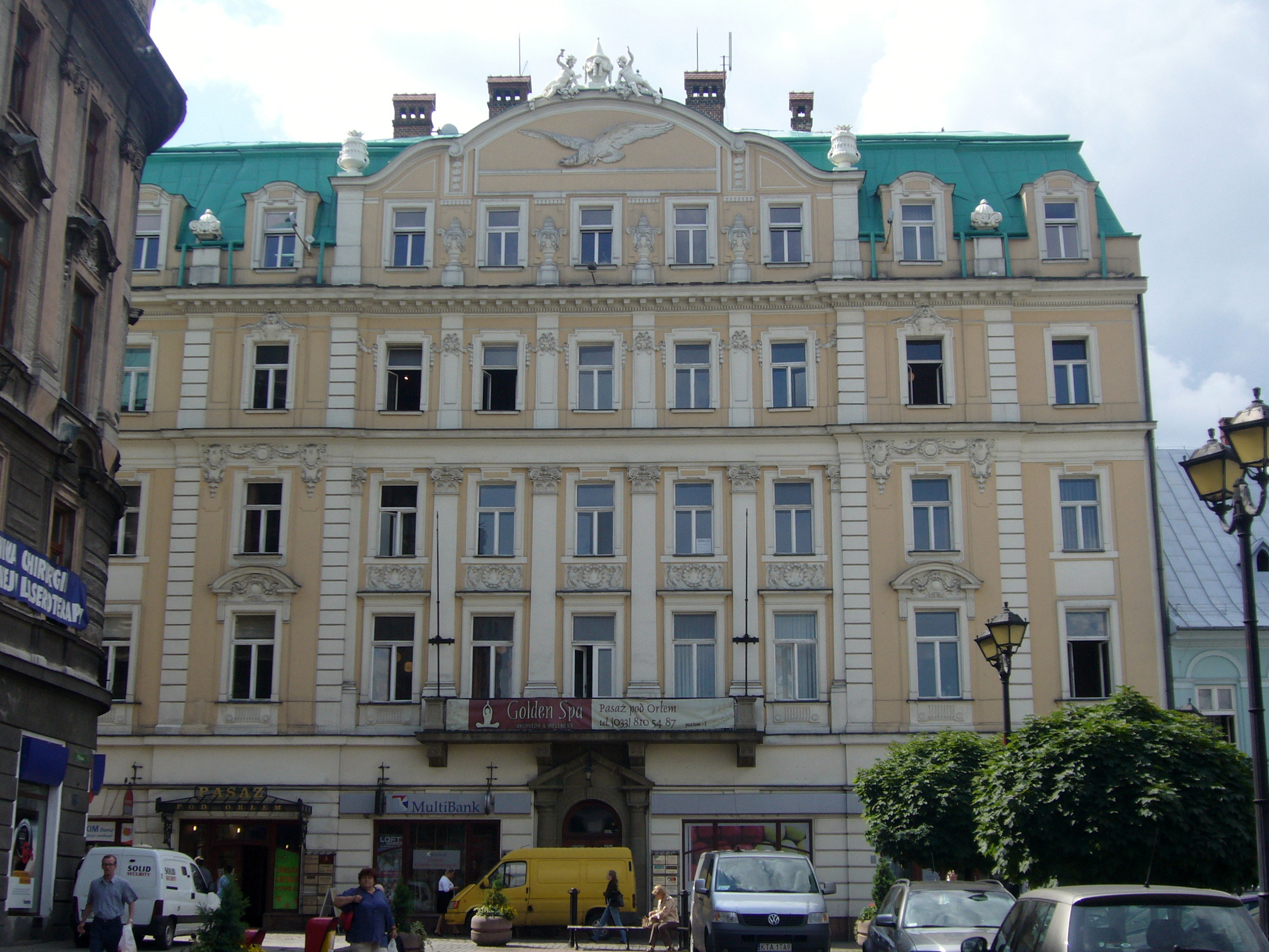 Hotel "Under the Eagle" in Bielsko-Biała.